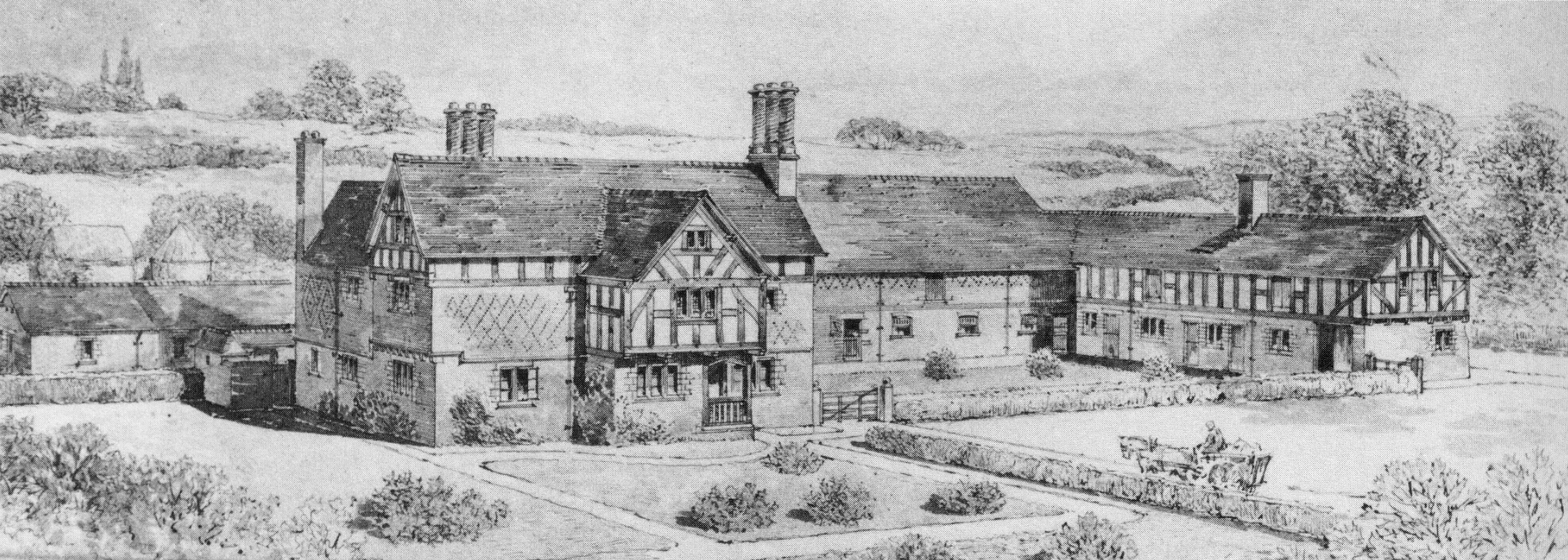 Scanned by the book by me. Drawing of Saighton Lane Farm, Cheshire in 1888 taken from Building News, 54, 1888, p. 838